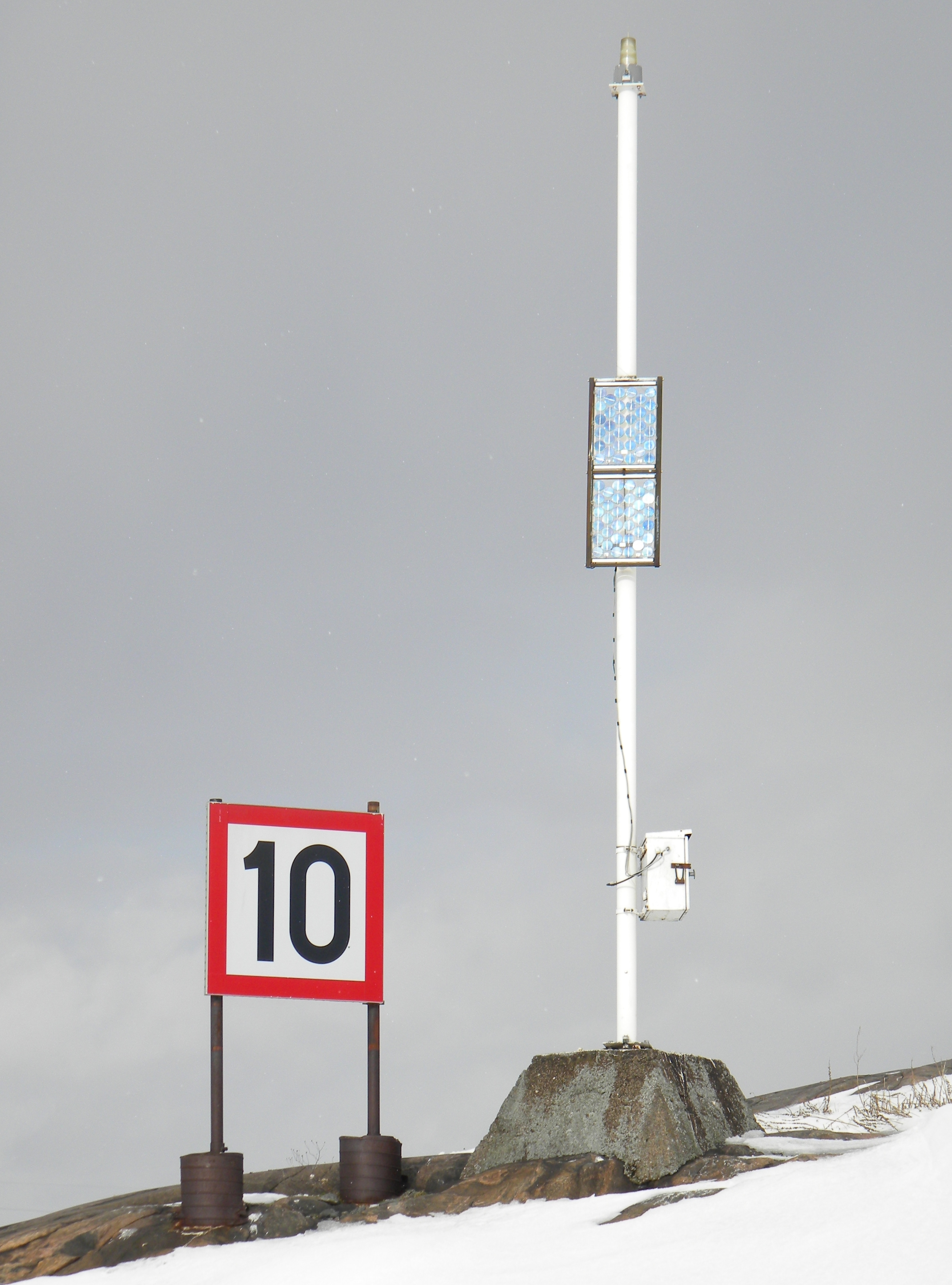 A maritime sign giving a speed limit, and a light using solar panels as an energy source. Picture taken in winter in front of Helsinki, Finland.